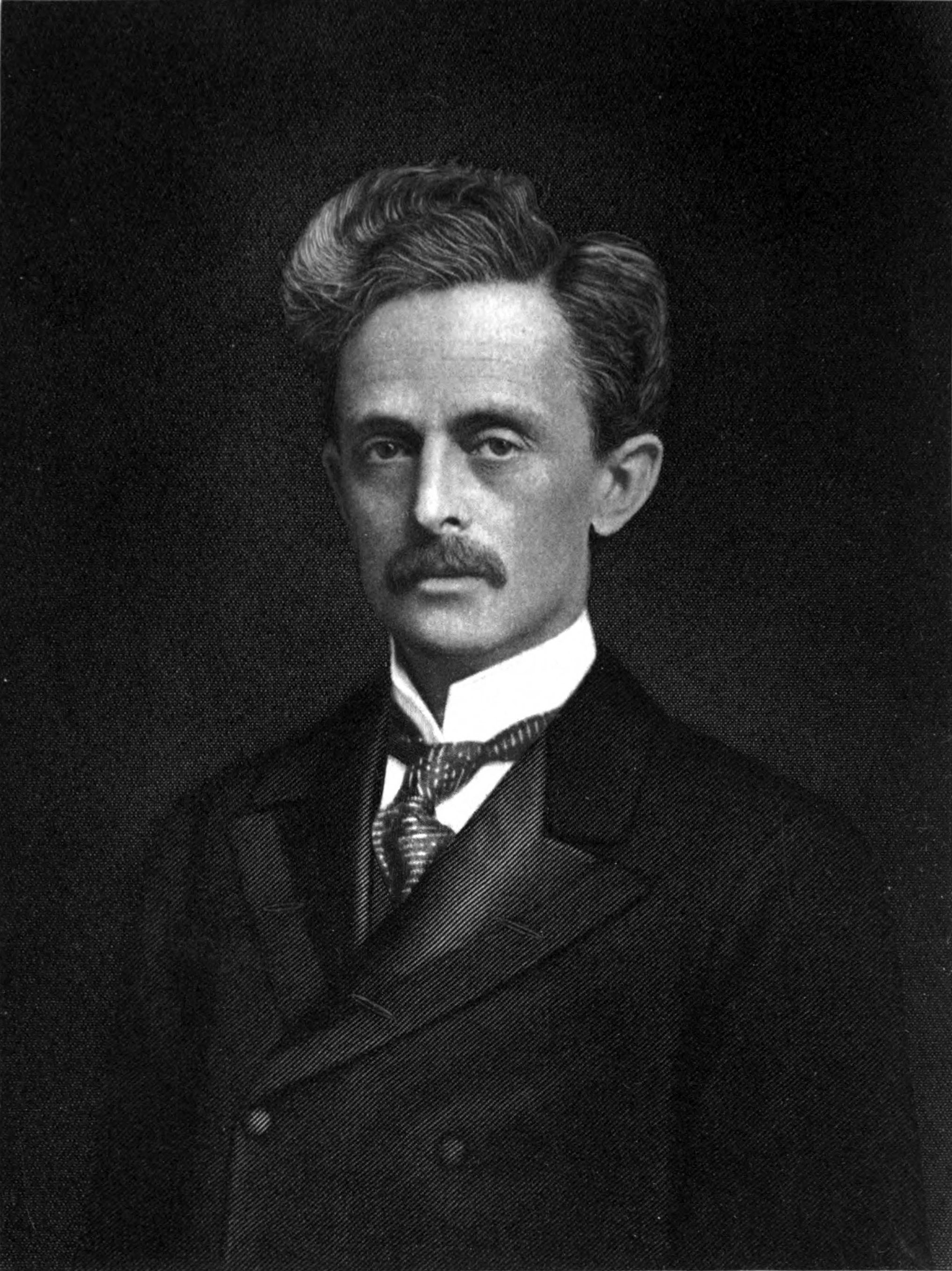 Engraved portrait of United States electrical engineer Frederick Stark Pearson